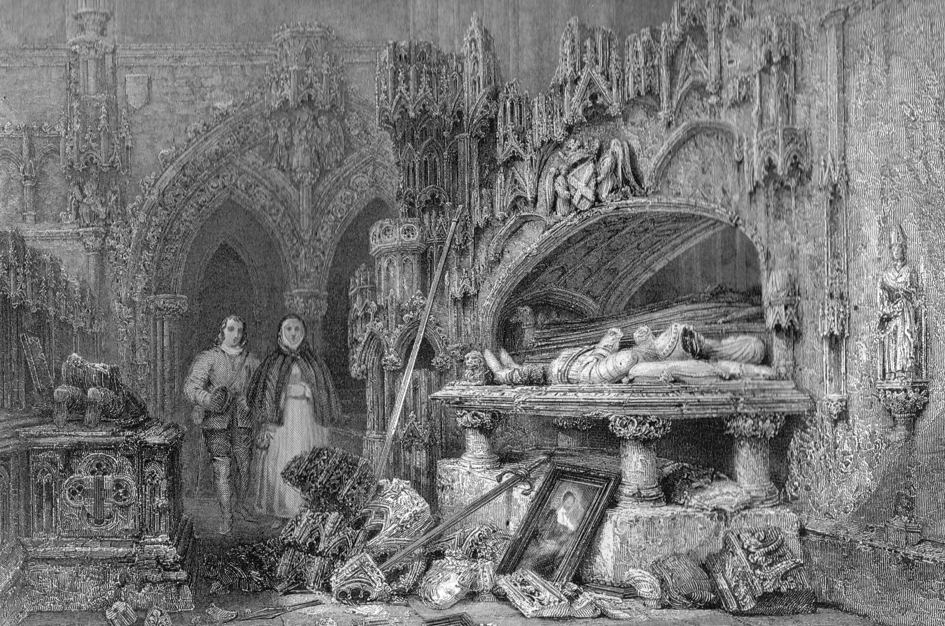 A view of the interior of the ruined Melrose Abbey, Scotland.